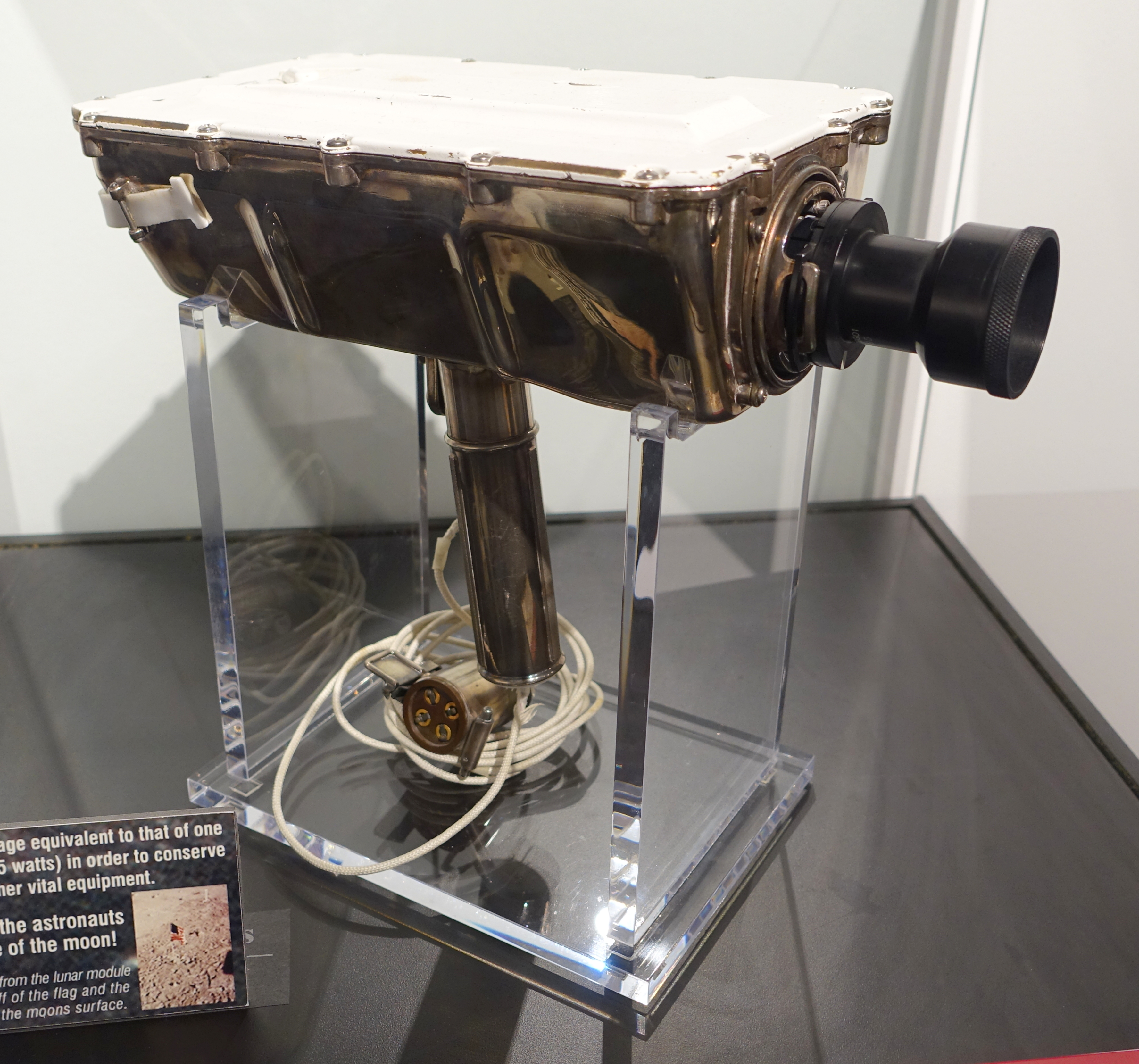 Exhibit in the National Electronics Museum, 1745 West Nursery Road, Linthicum, Maryland, USA. All items in this museum are unclassified. The museum permitted photography without restriction.